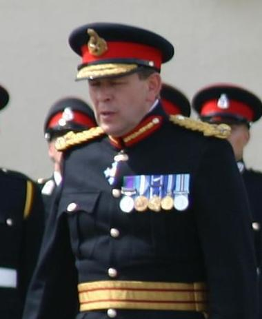 New Colours are presented to RMAS (Royal Military Academy Sandhurst). Officer Cadet Wales (Prince Harry of Wales - rightmost of the cadets, visible between the Chief of the Defence Staff and the horse) and his intake of Juniors are inspected by the then Chief of the Defence Staff, General Sir Michael Walker GCB, CMG, CBE, later Baron Walker of Aldringham